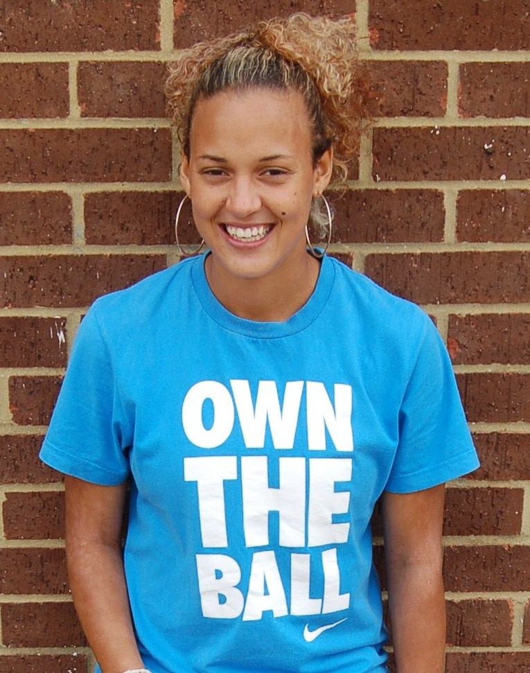 Lianne Sanderson